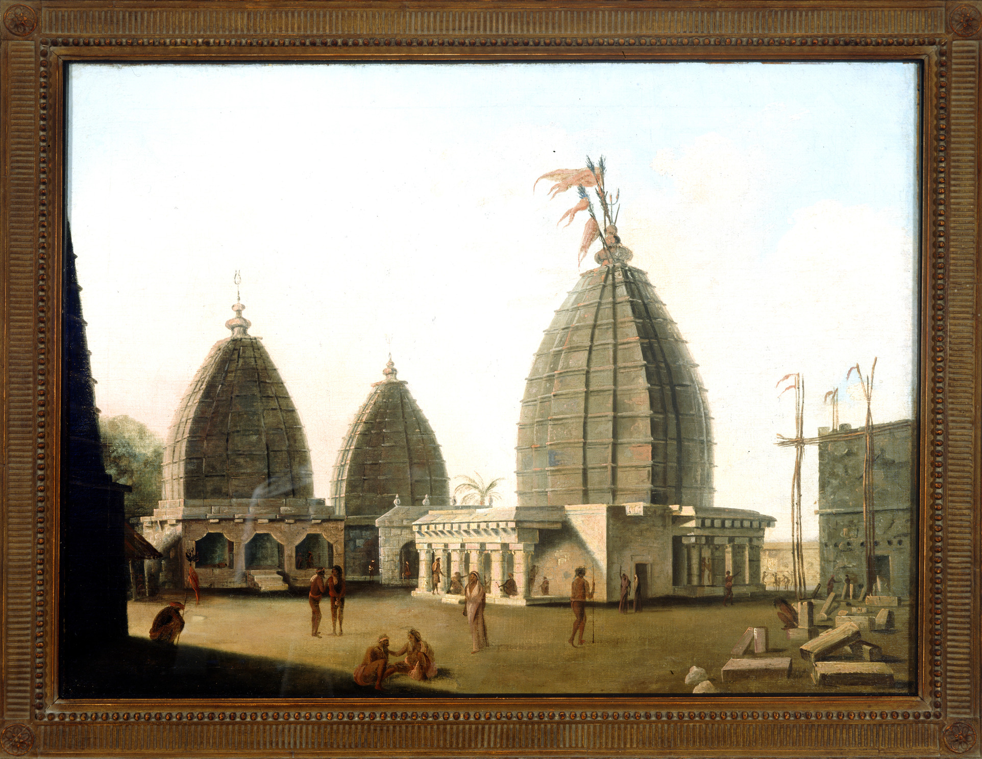 Temples A group of temples at Deorgag, Santal Parhanas, Bihar. Pyramid shape temples with trisura and flags at the top. Oil on canvas.